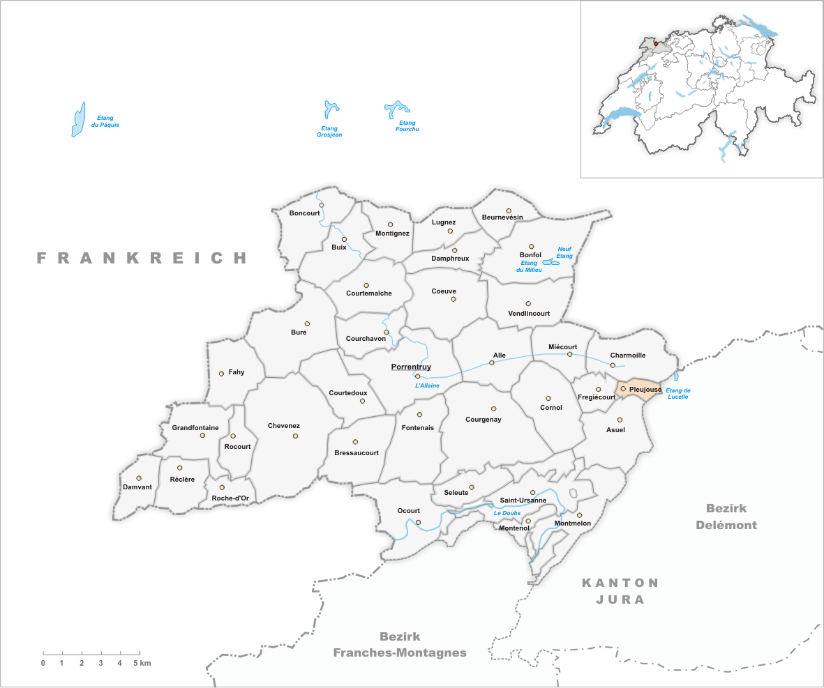 Municipality Pleujouse